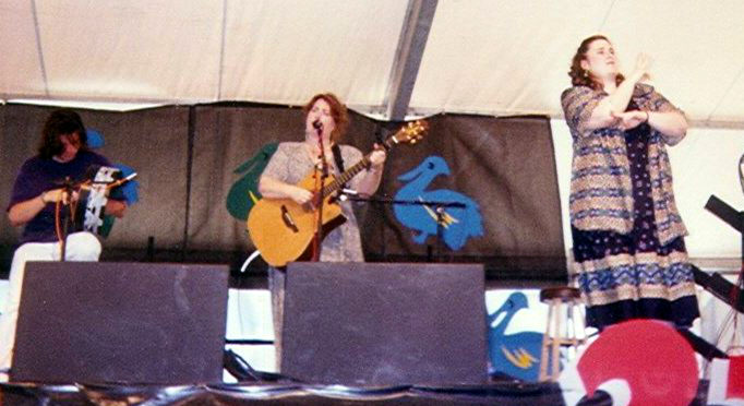 Betsy McGovern (center) at New Orleans Jazz & Heritage Festival, 1994 Amy Baskin at right giving sign language interpretation. Photo by Infrogmation